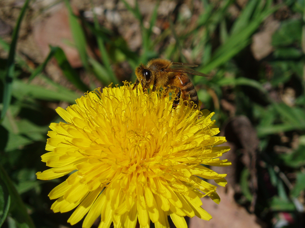 Honeybee Apis Mellifica Ligustica) on dandelion (Taraxacum Officinale) Ape su tarassaco